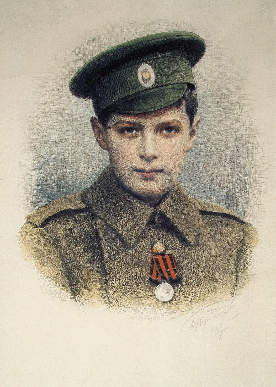 Portrait (etching with watercolour) of Tsarevich Alexei